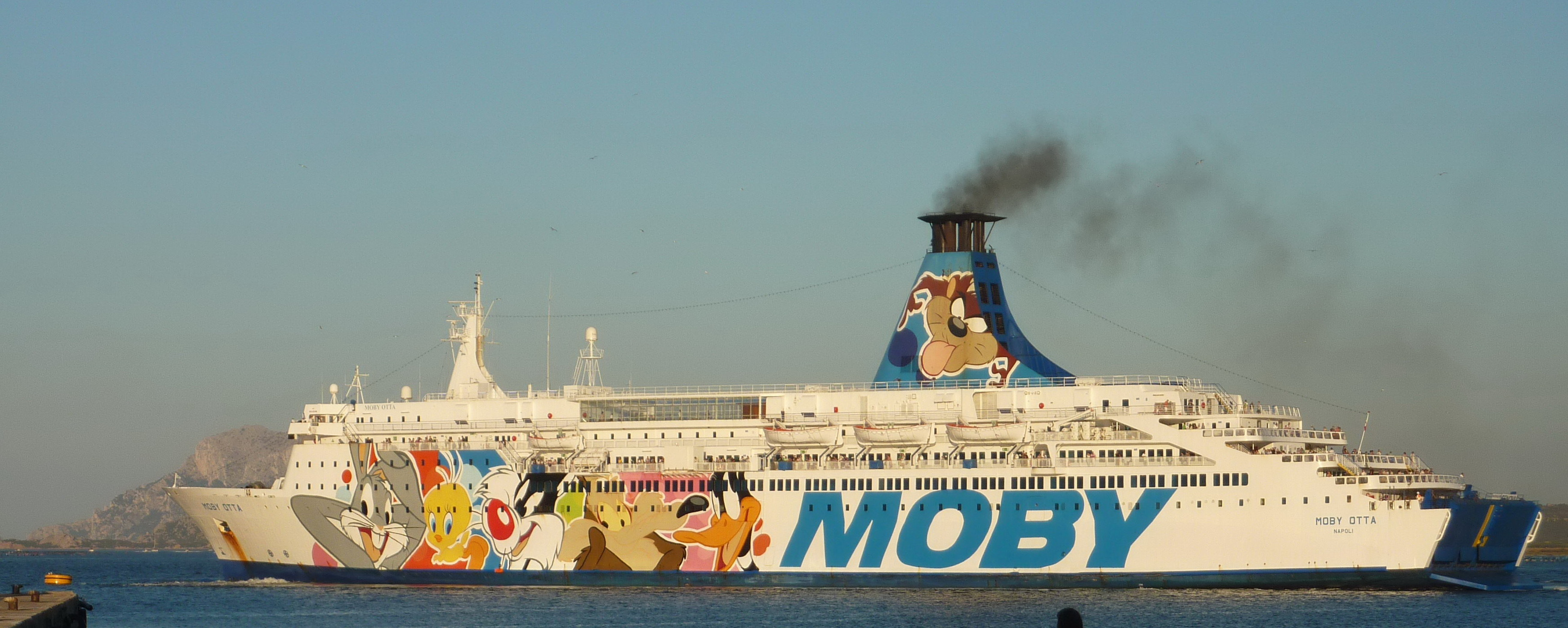 Moby Otta in Olbia on 10th of August 2013